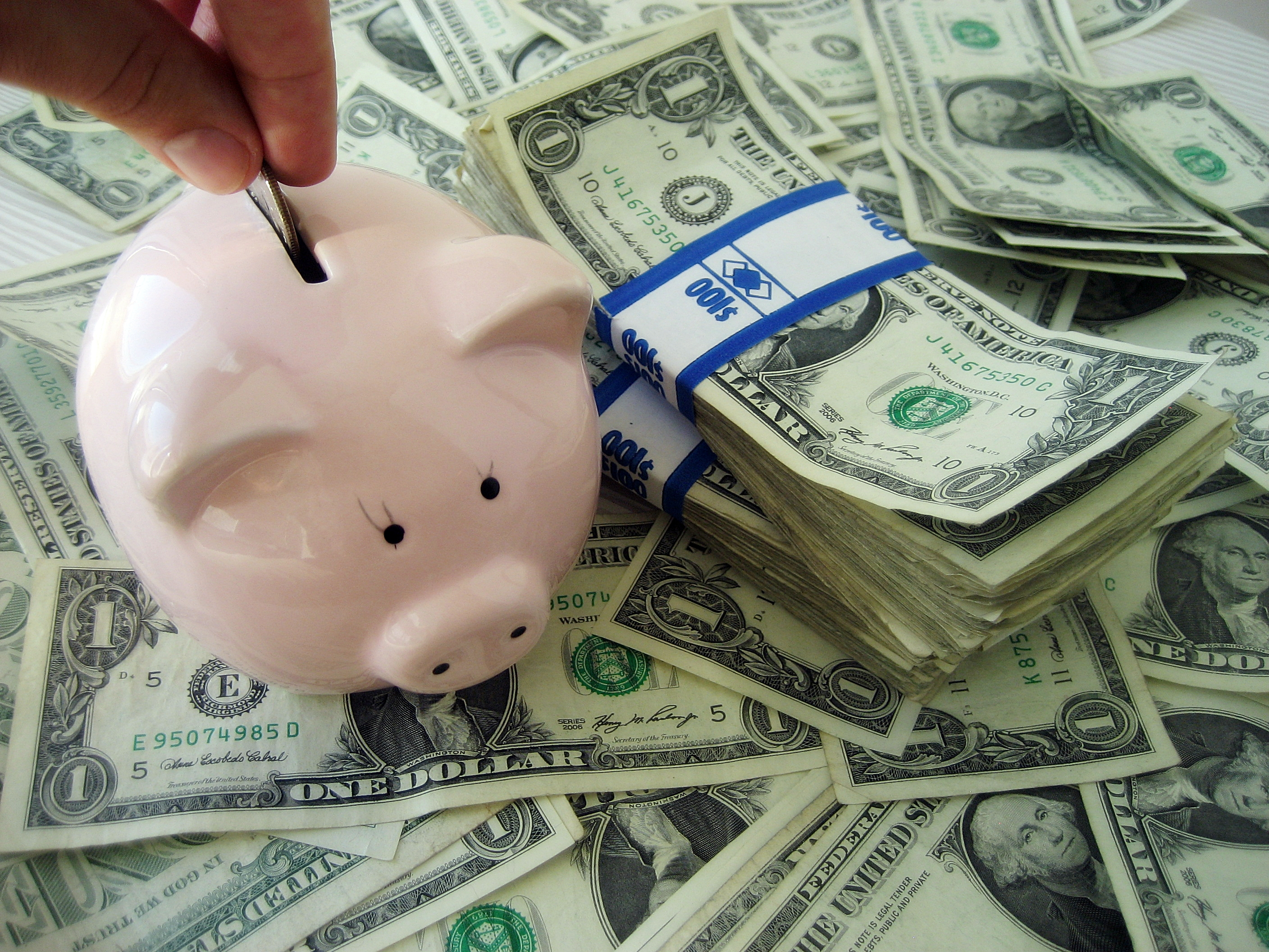 Putting a coin into a piggybank.